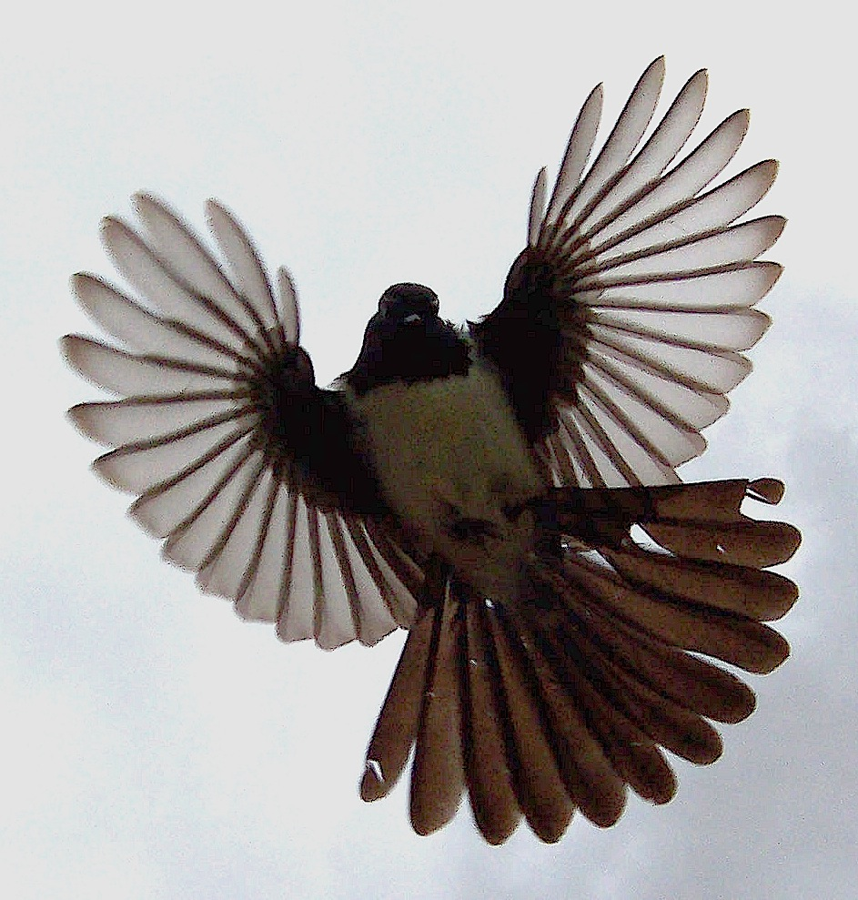 Willy Wagtail in flight